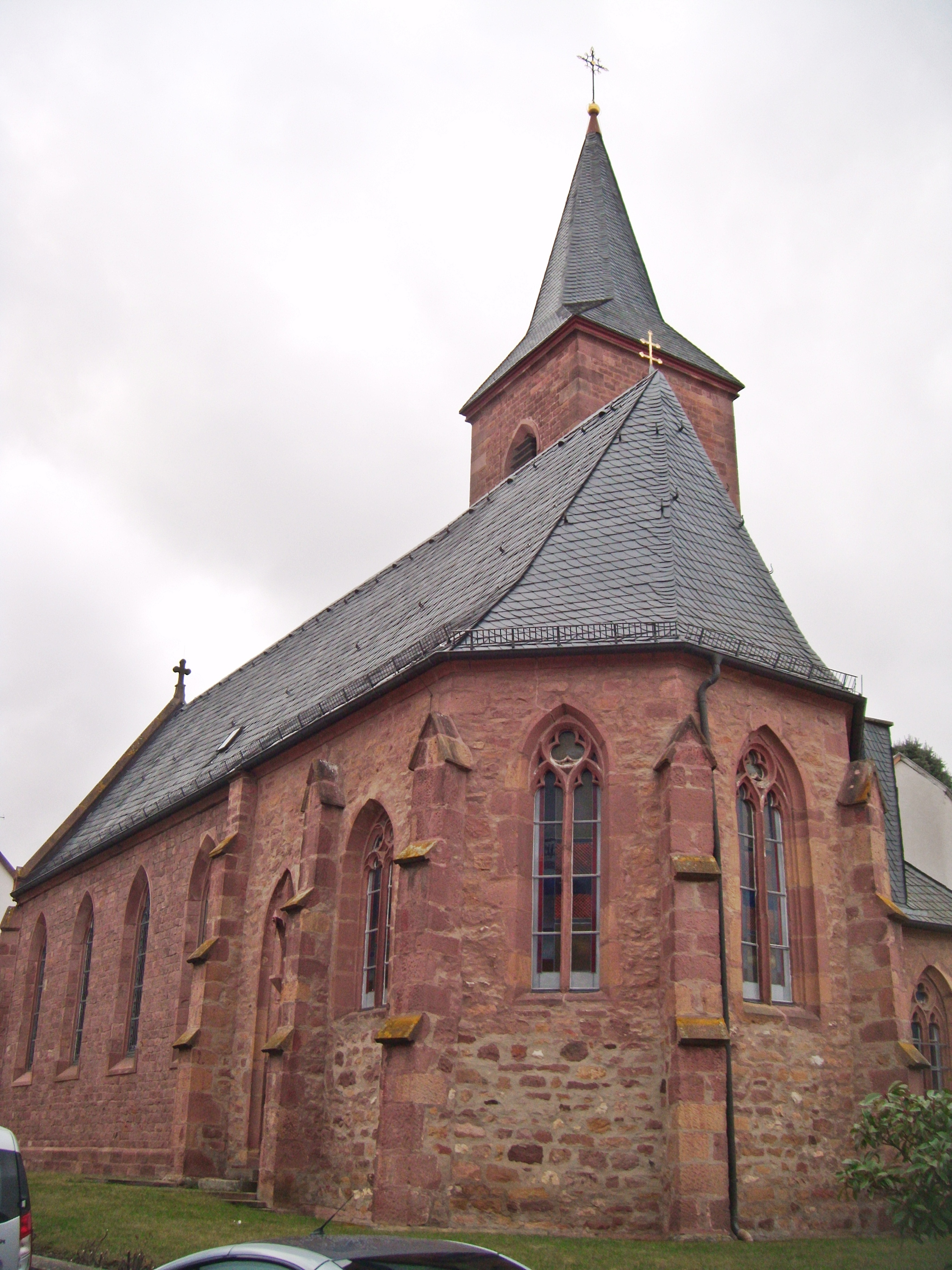 Kath. Kirche St. Stephan, Grünstadt-Sausenheim